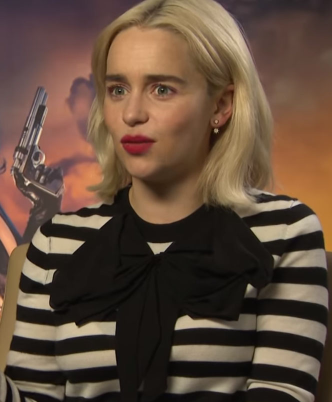 Emilia Clarke in an interview for MTV International in 2018